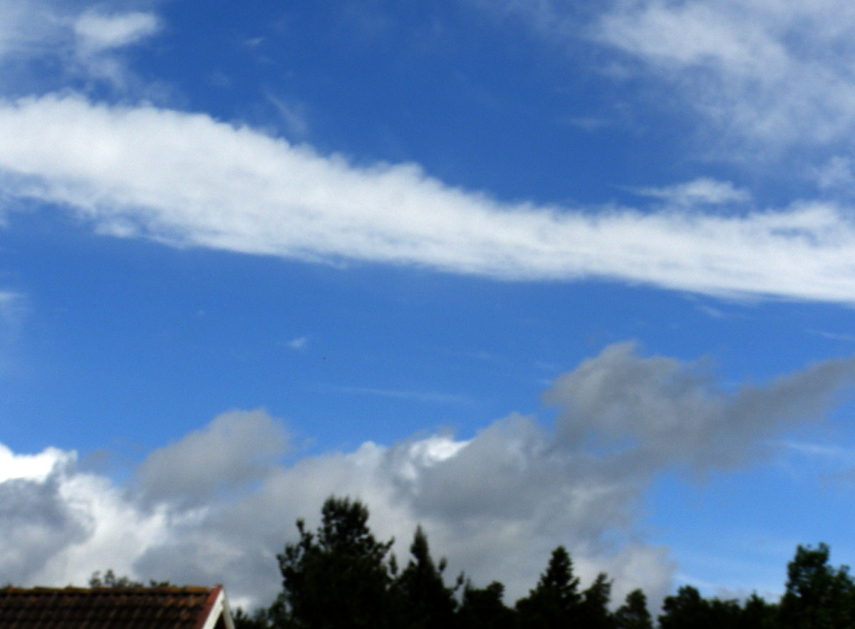 Cirrus castellanus clouds at the upper half of the picture